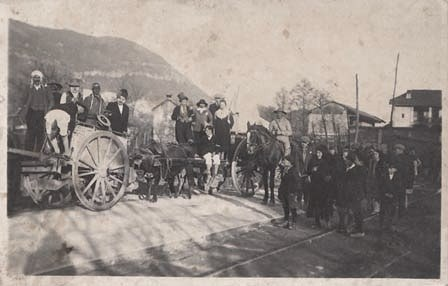 Bornate, old picture with tramway metals